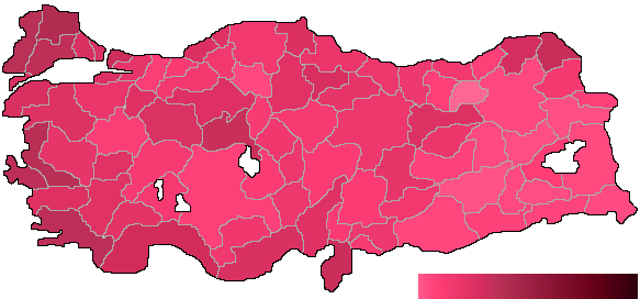 2007 Turkish election map showing the CHP's results by il.